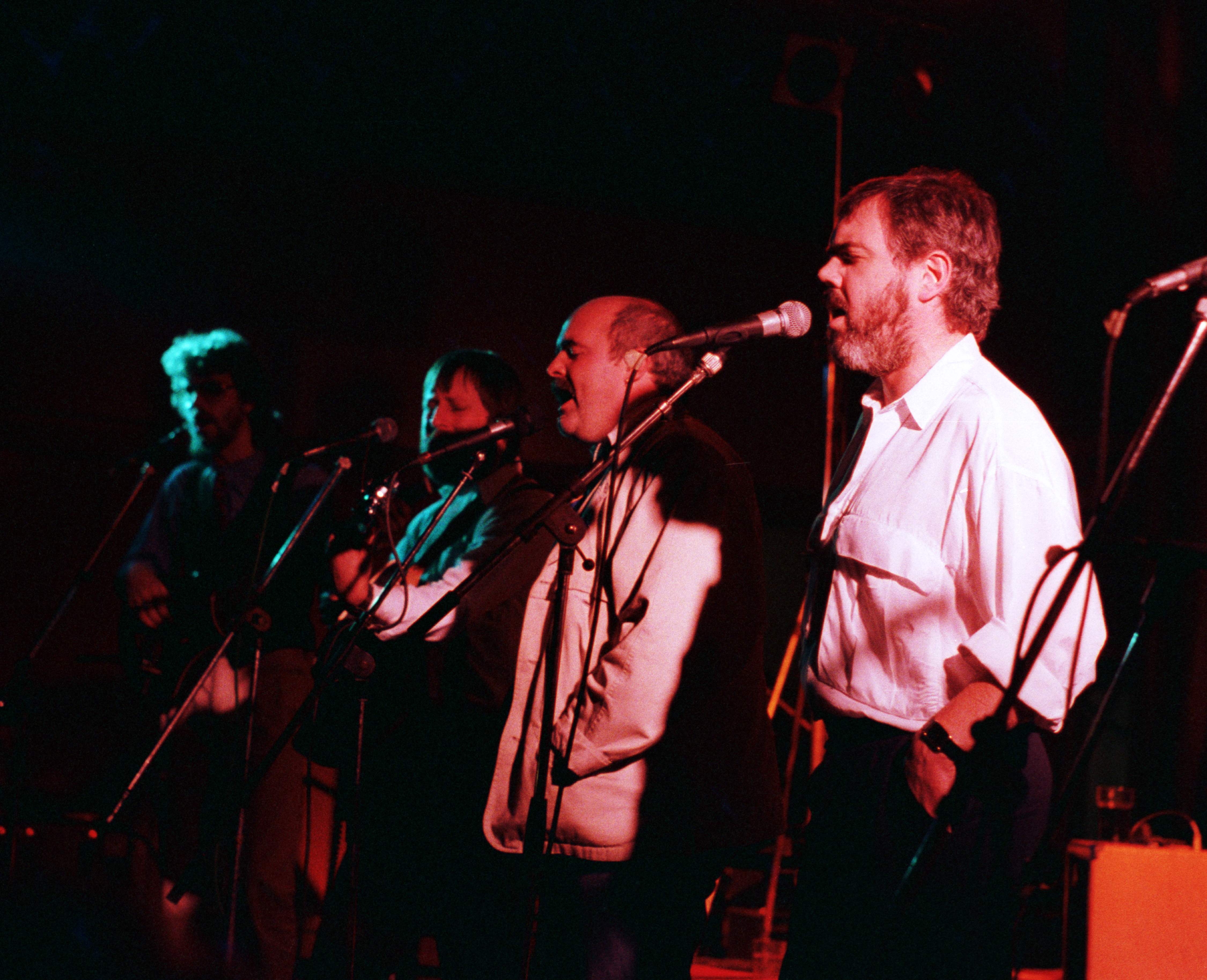 Mynediad am Ddim. Geltaidd 100 concert in Aberystwyth, 1985. Image by Medwyn Jones